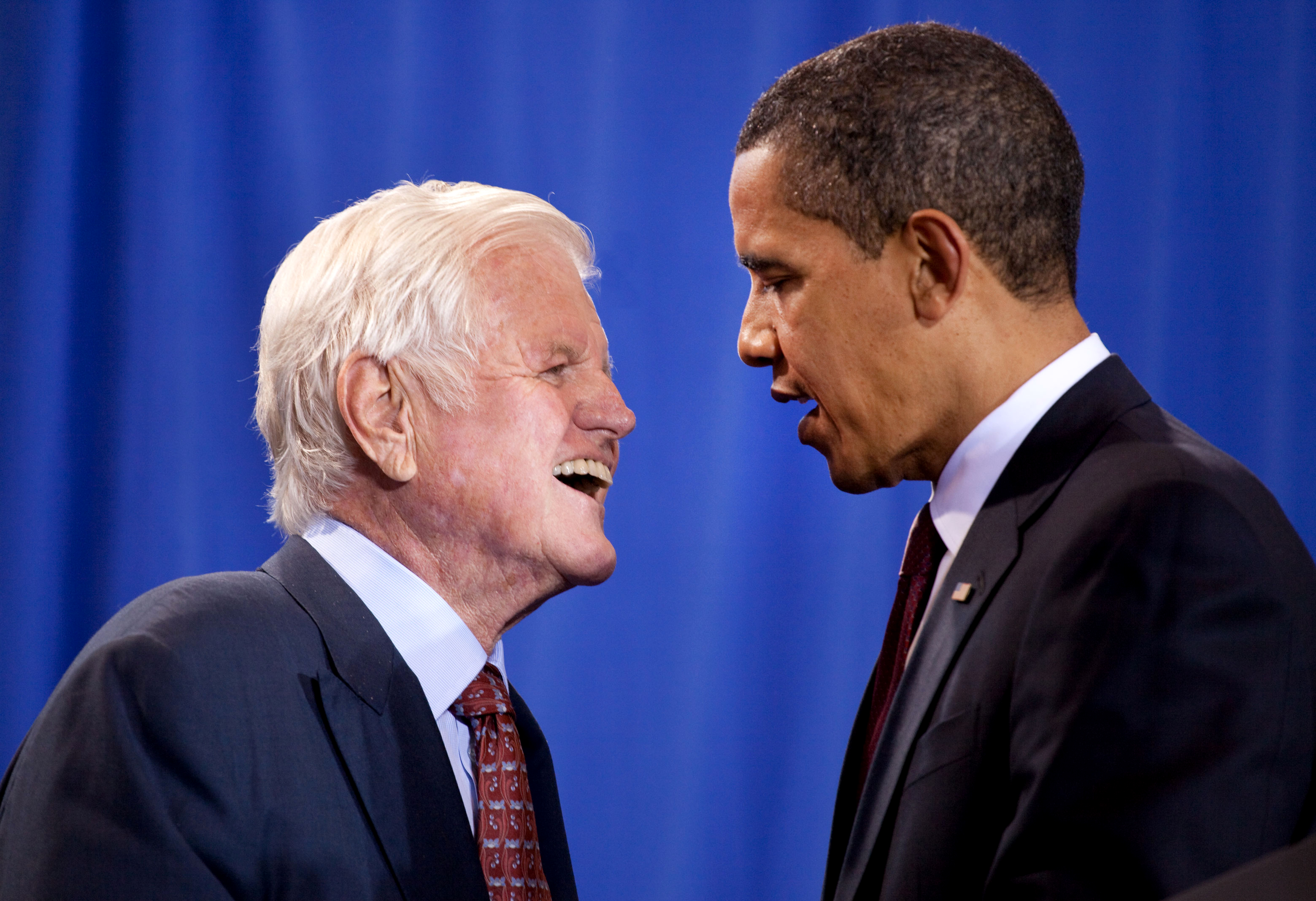 President Barack Obama and Senator Ted Kennedy participate in a national service event at The SEED School of Washington, D.C., where H.R. 1388, the Edward M. Kennedy Serve America Act was signed April 21, 2009.